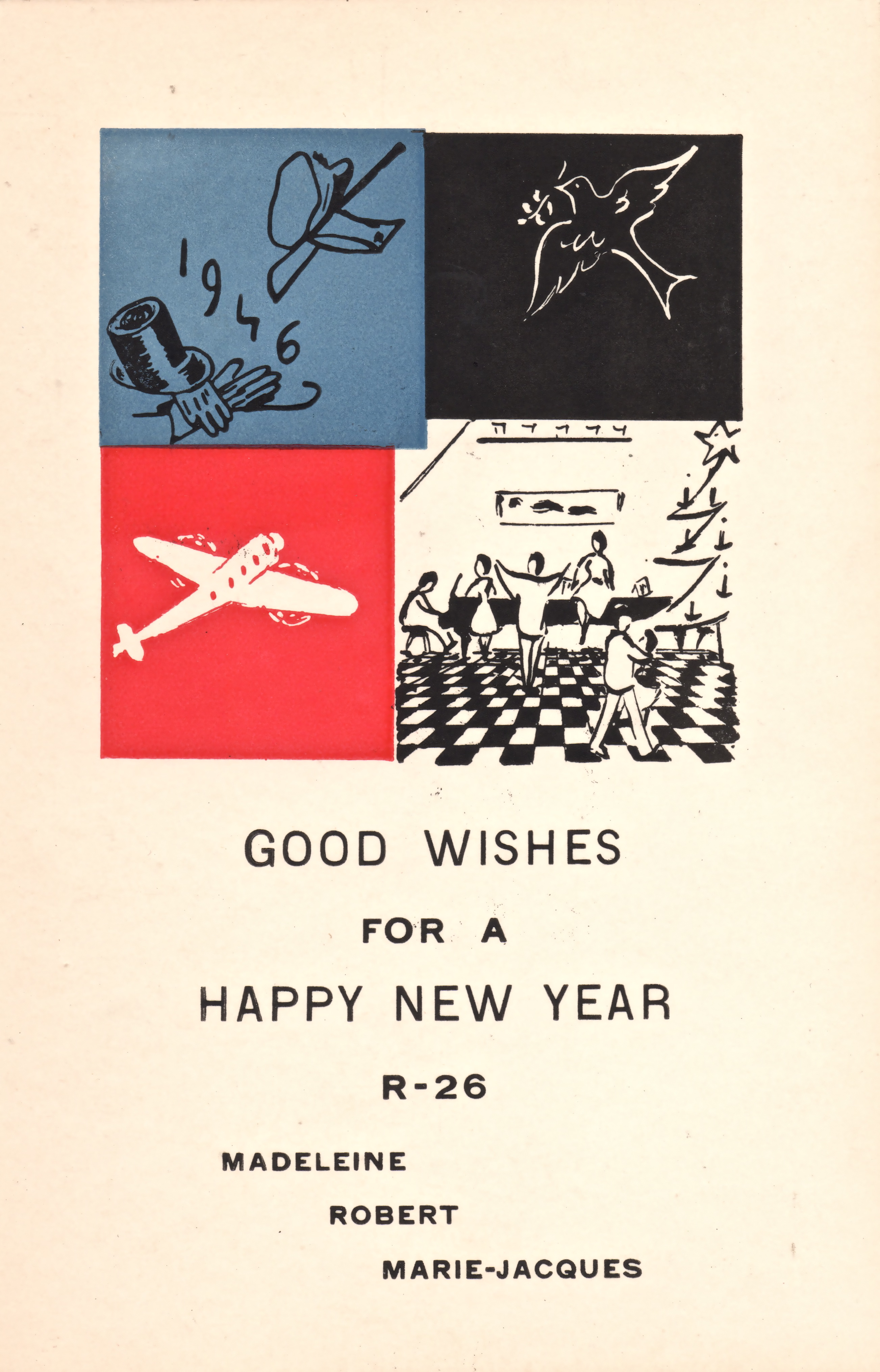 Madeleine, Robert & Marie-Jacques Perrier. Paris, December 1945.